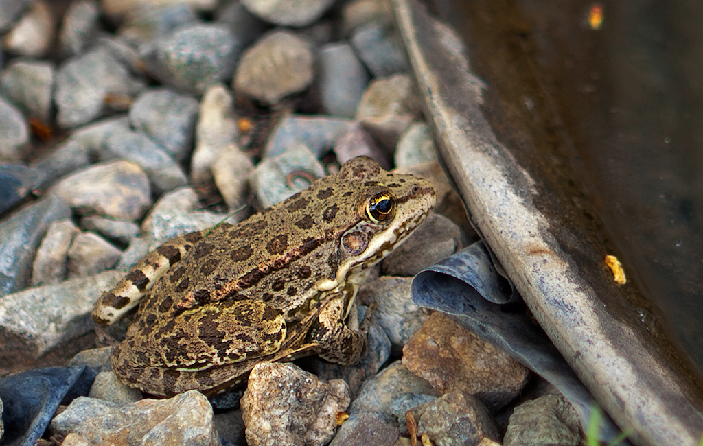 Marsh frog (Pelophylax ridibundus) near the artificial pond